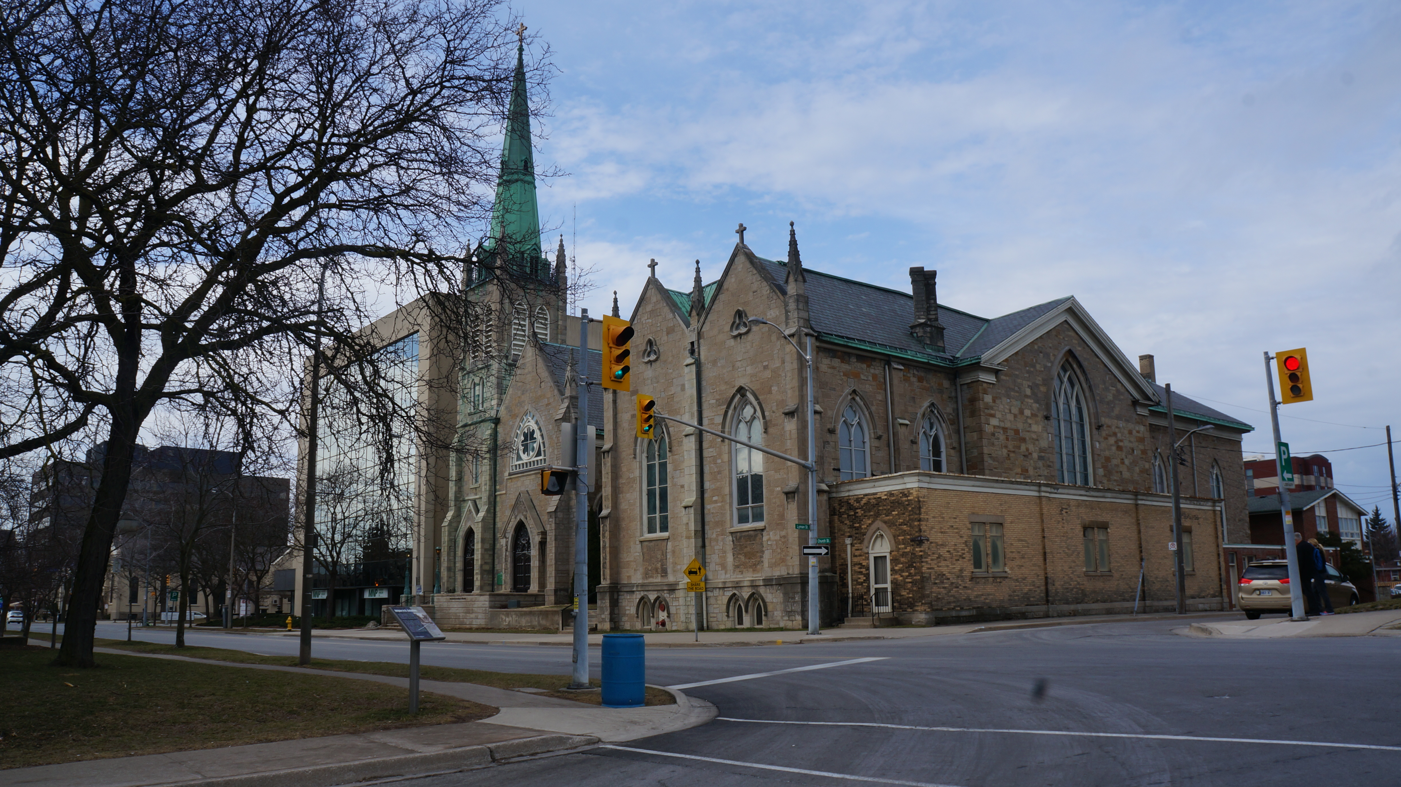 Cathedral of St. Catherine of Alexandria - St. Catherines, ON